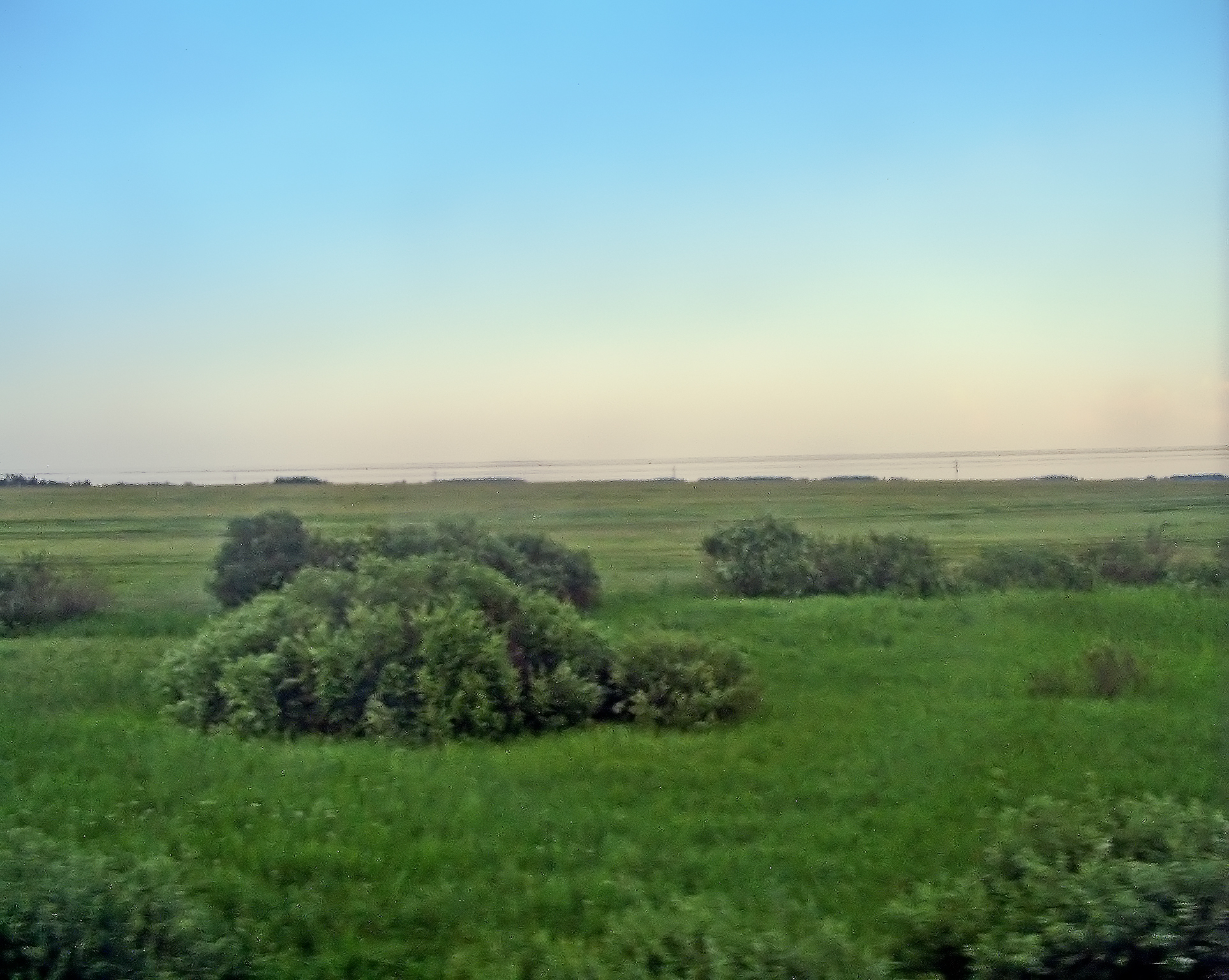 Image of the Western Siberian plain. Taken from the moving Trans-Siberian railway (hence the blur, unfortunately) outside Tatarskaya in 7/06 by me, released into public domain.